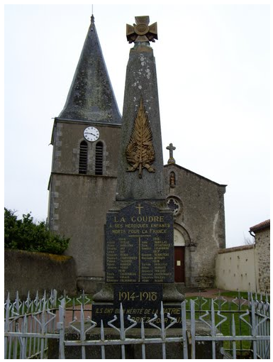 Church